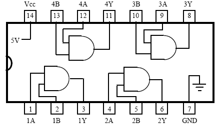 It is a QUAD 2-Input AND GATES and contains four independent gates each of which performs the logic AND function.